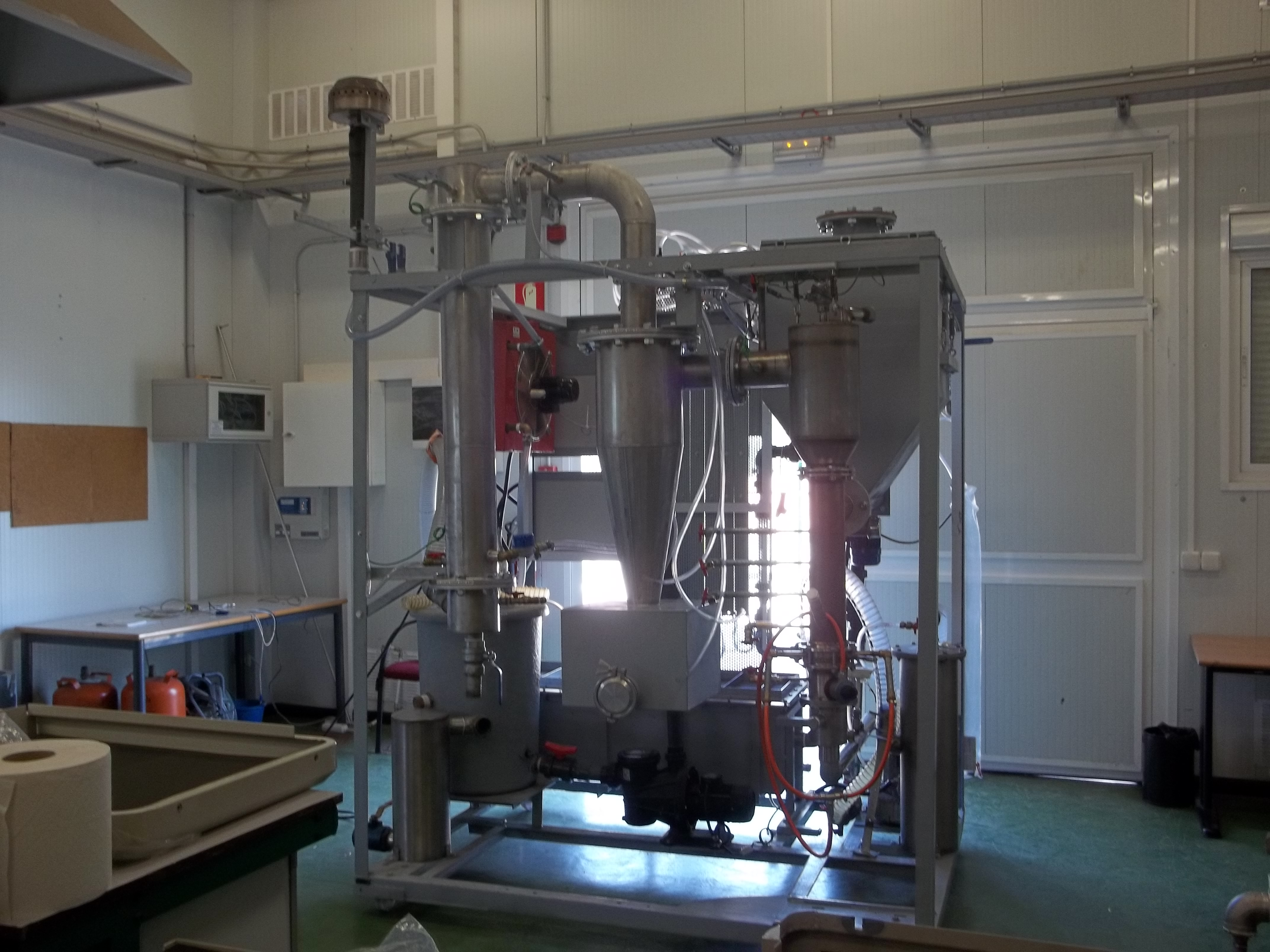 Bluidized bed biomass gasification plant